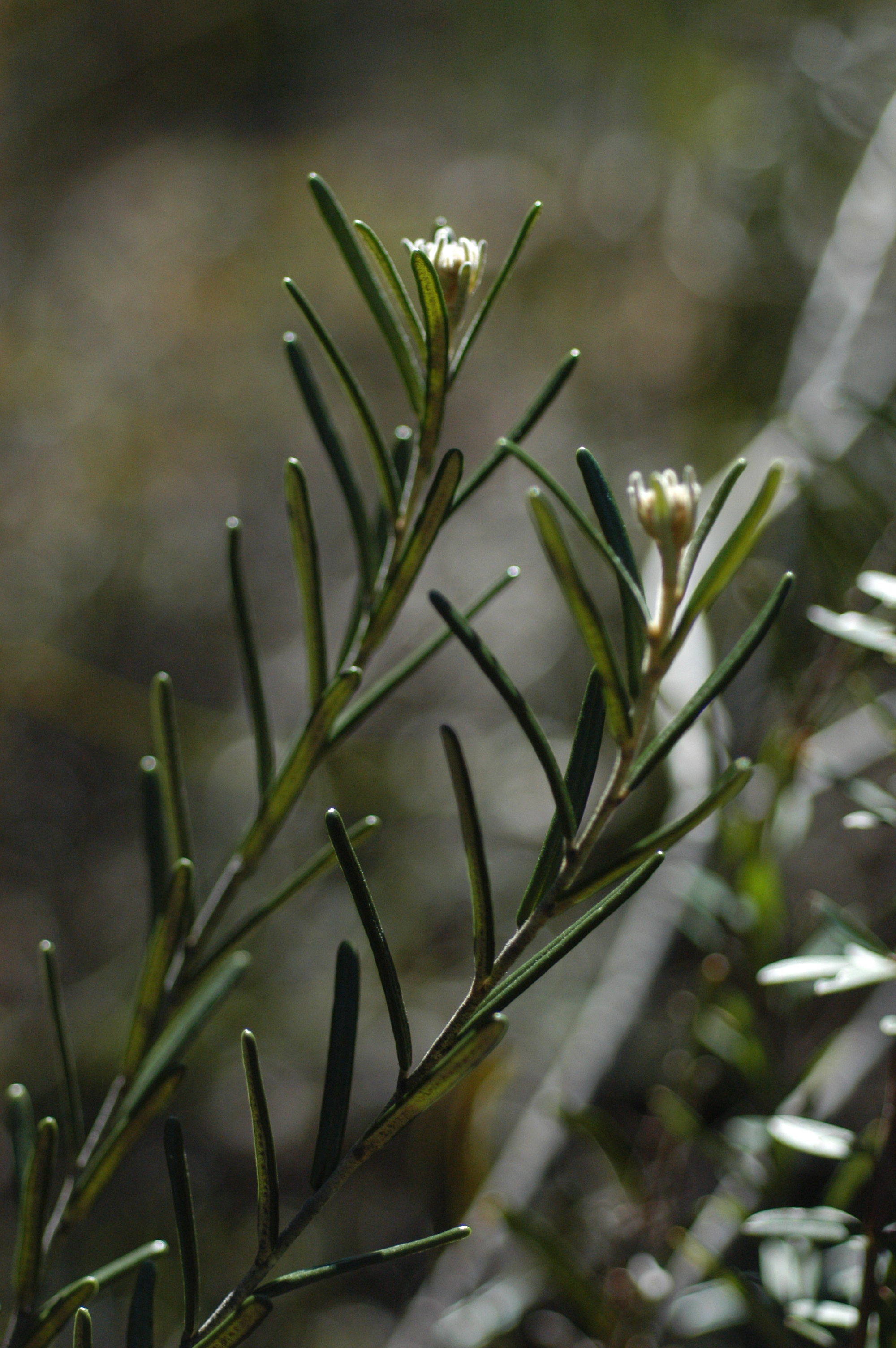 Astrotricha crassifolia